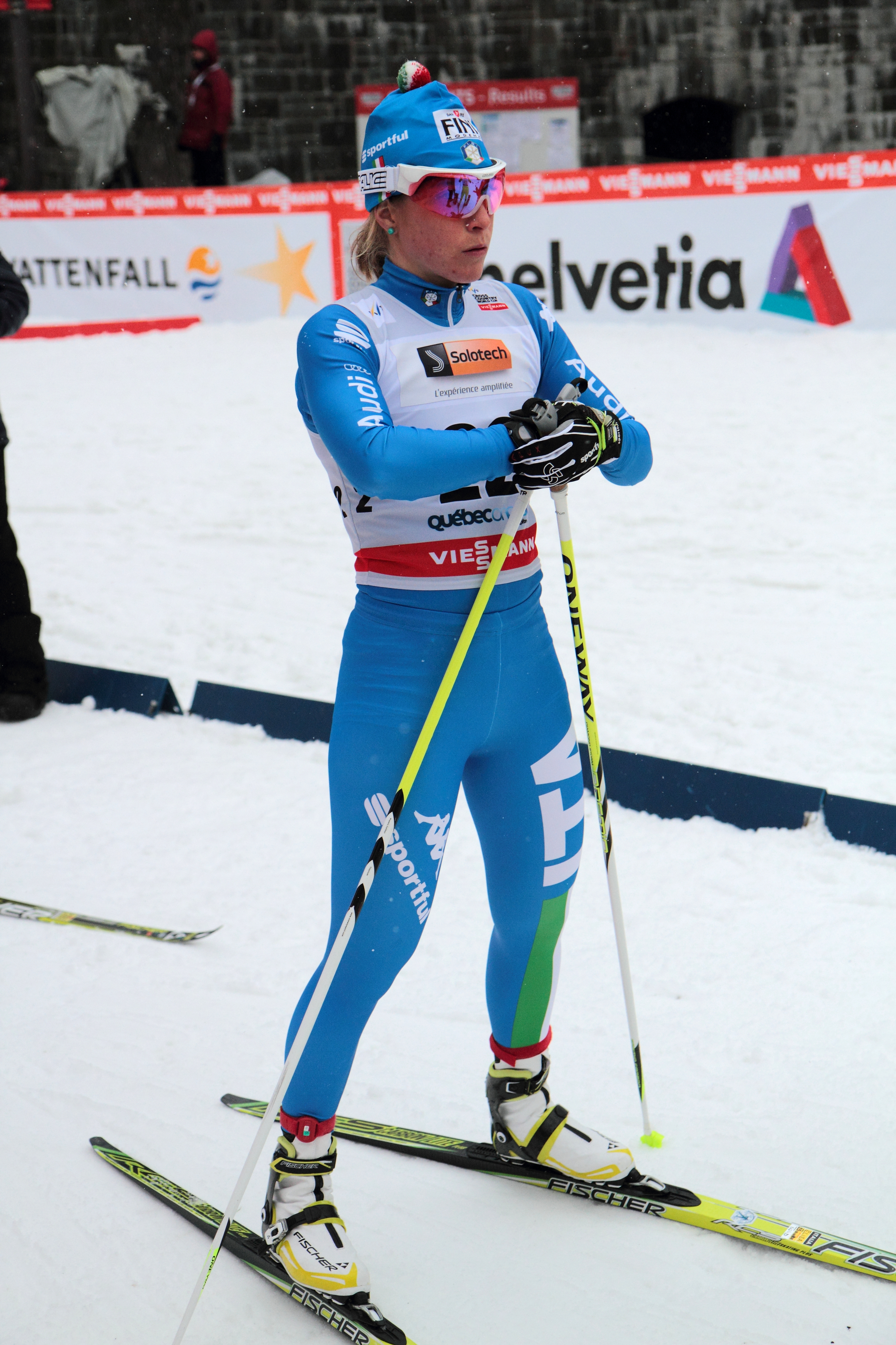 Elisa Brocard, FIS Cross-Country World Cup 2012, Quebec, Canada.